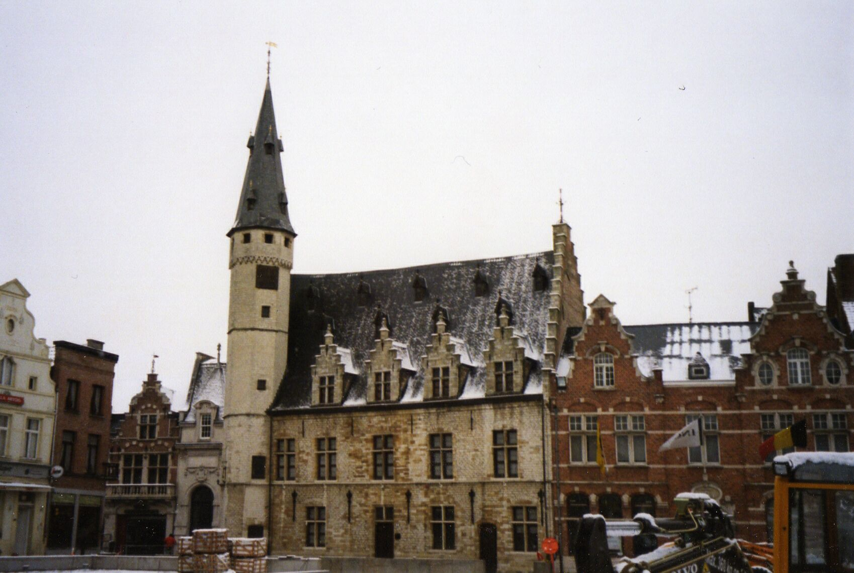 Building of the former Meat House (Dutch: vleeshuis) in Dendermonde.The Meat House was built in 1462. It is situated in the Grote Markt (Big Market) square, the main square of the town. Now it houses the town museum.